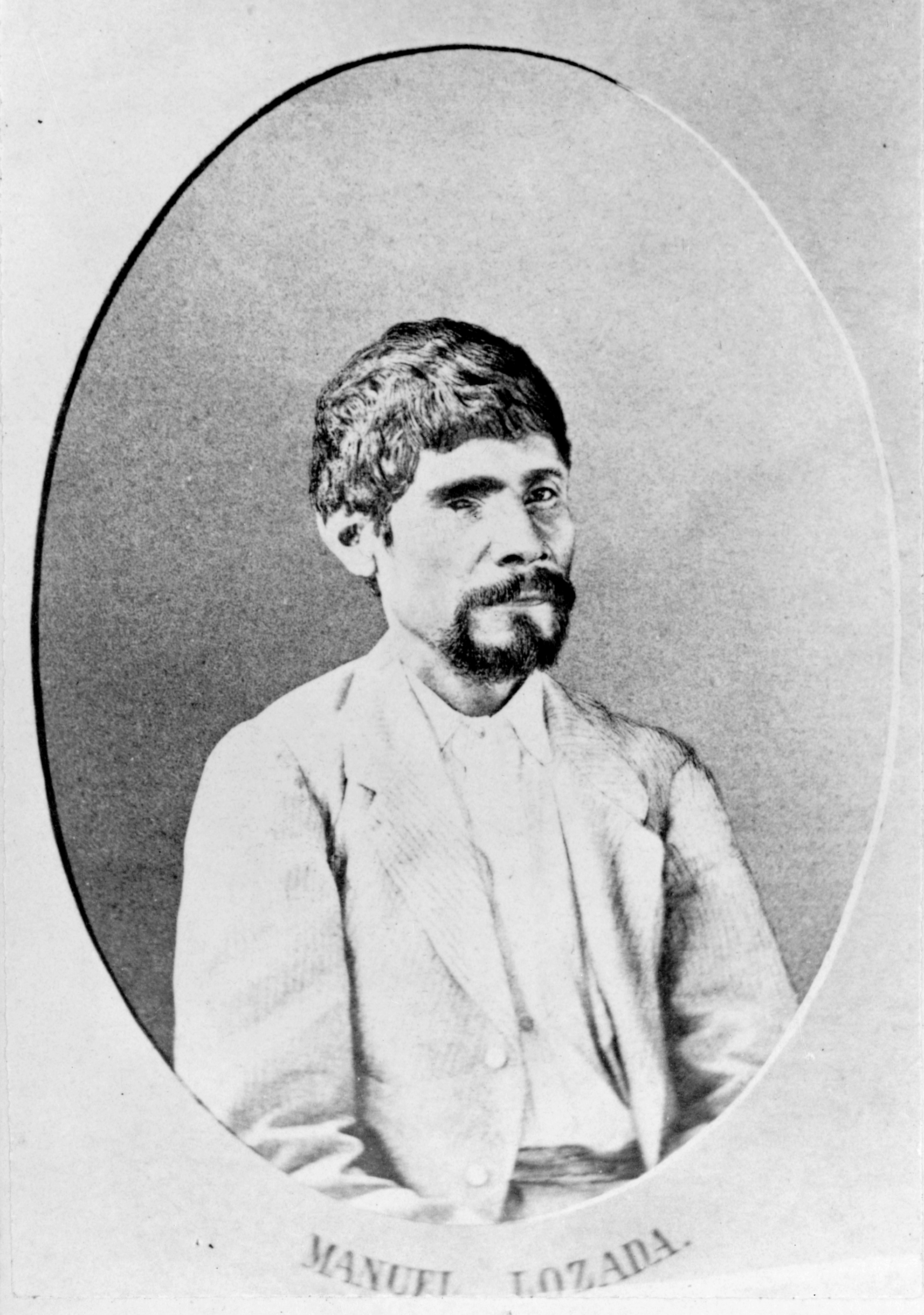 Manuel Lozada, Mexican bandit and insurgent